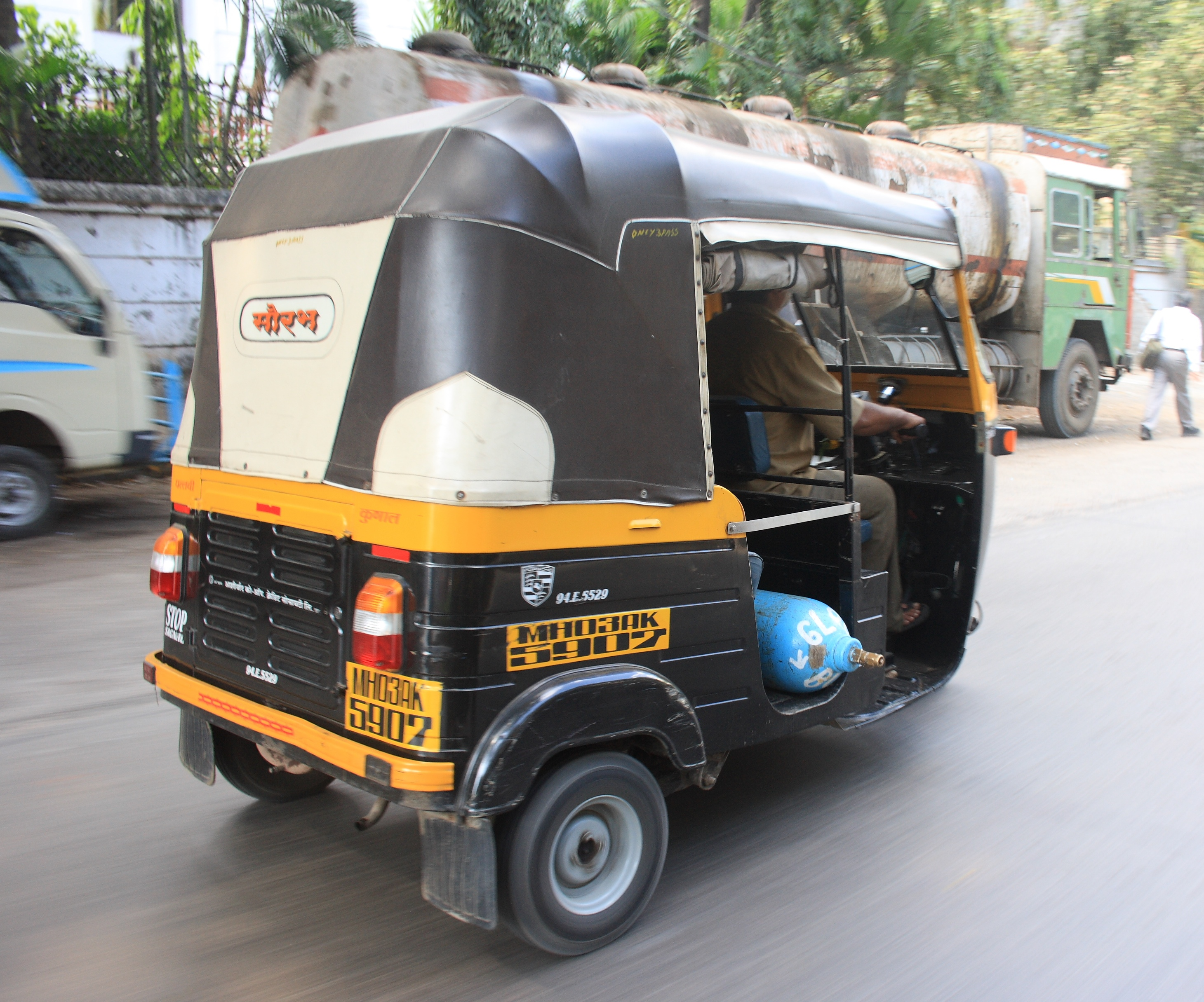 An auto rickshaw in Mumbai, carrying an unsecured gas cylinder. Photo taken from another autorickshaw on L B Shastri Marg, travelling northbound.